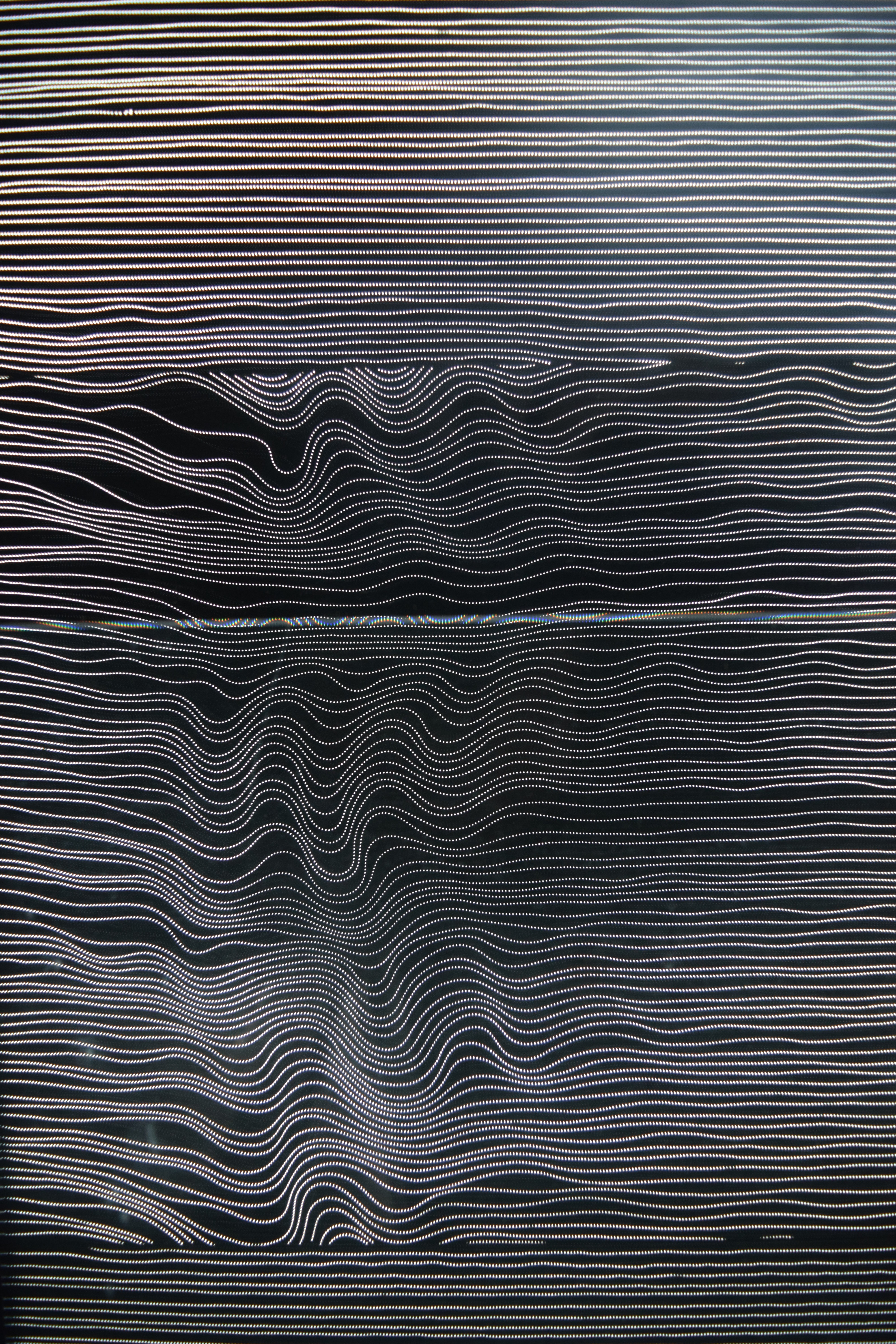 It is a translucent concrete panel used in One Athens.